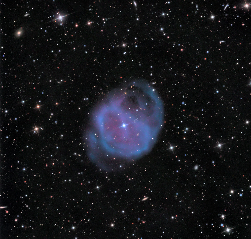 Abell 36 Picture Details: Optics 32-inch Schulman Telescope (RC Optical Systems), Acquired remotely Camera SBIG STX 16803 CCD Camera Filters AstroDon Gen II Dates March - April 2014 Location Mount Lemmon SkyCenter Exposure LRGB = 7:3:3:3 Hours Acquisition ACP Observatory Control Software (DC-3 Dreams), Maxim DL/CCD (Cyanogen), FlatMan XL (Alnitak) Processing CCDStack (CCDWare), Photoshop CC (Adobe), PixInsight Credit Line and Copyright Adam Block/Mount Lemmon SkyCenter/University of Arizona .